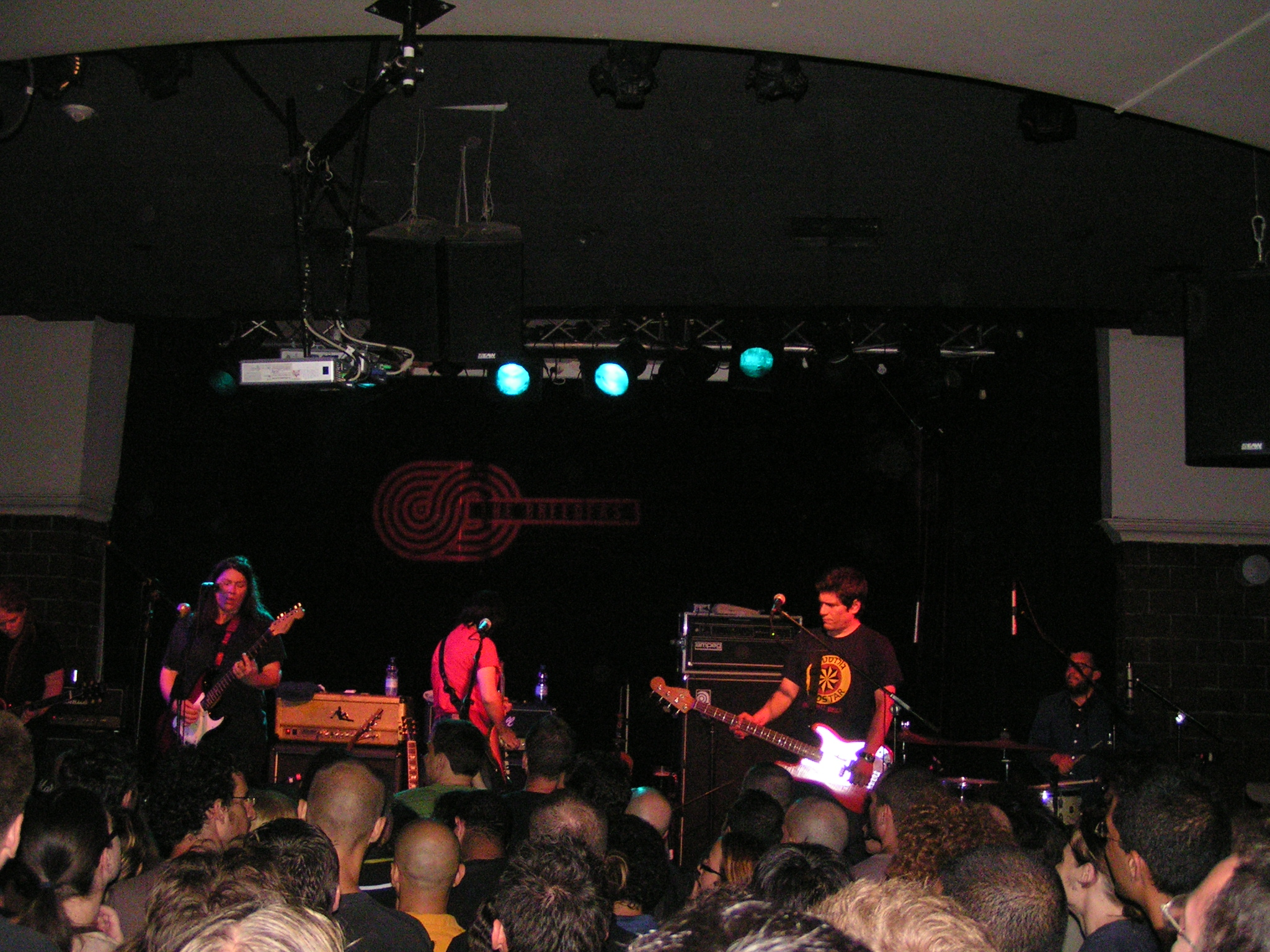 The Breeders live in the Zappa club, Tel Aviv, Israel, August 22, 2008